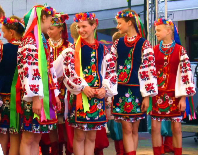 Ukrainian girls wearing traditional clothes and embroidery at the Fifa world cup 2006ukrainian girls